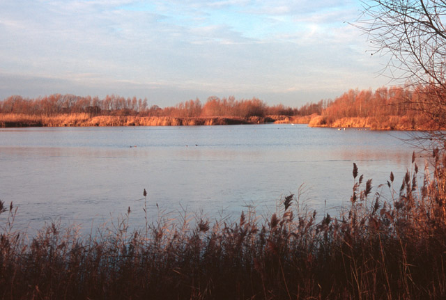 Fen Drayton nature reserve Previously a gravel and sand extraction site, these pits have been flooded into lakes to provide nationally important wetlands for overwintering waterbirds such as the Gadwall, Wigeon, Pintail and Coot. Smew and Bittern are also regularly present in winter. In summer many types of dragonfly are seen, including Hairy Dragonfly and Scarce Chaser.